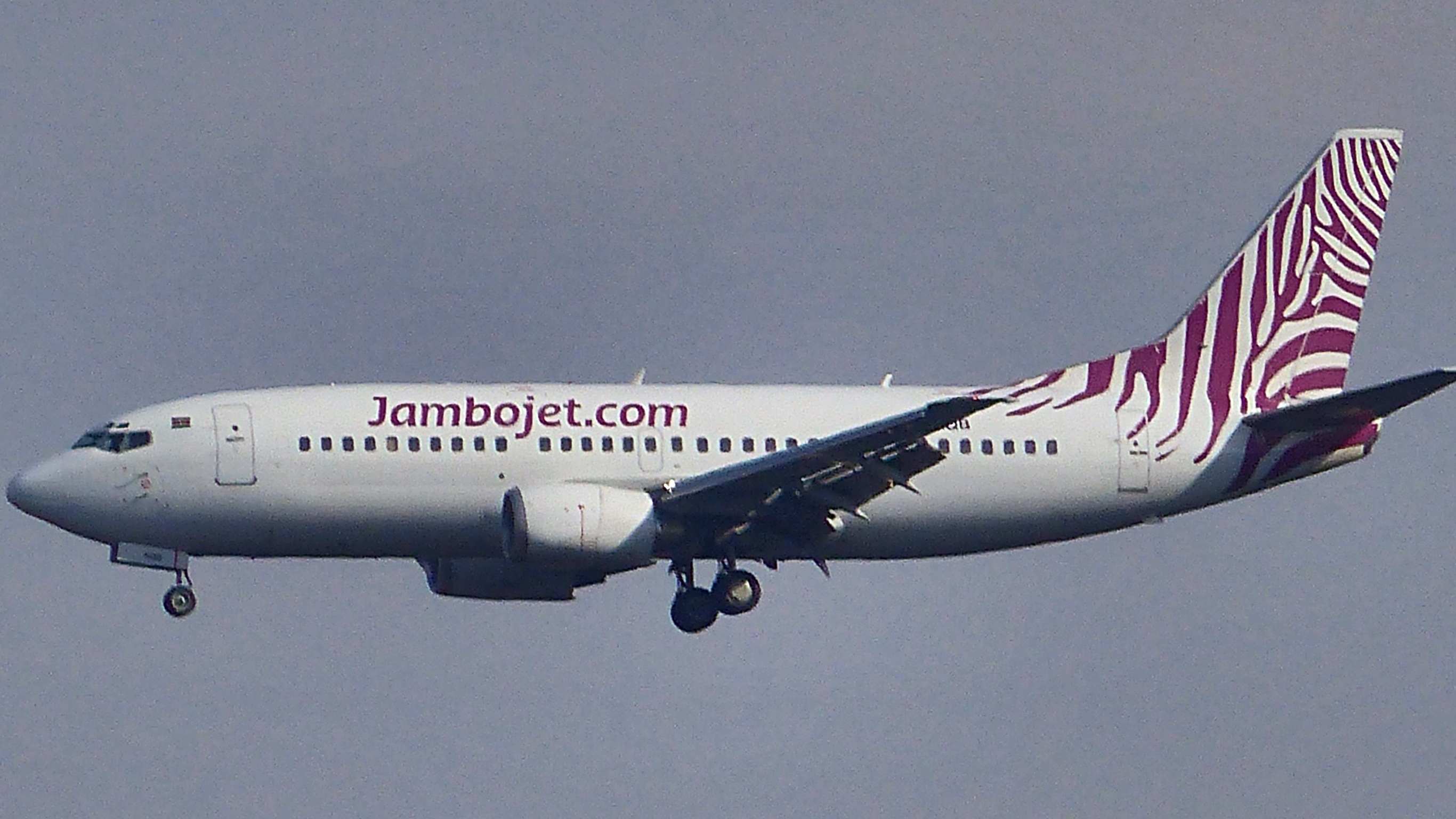 Jambojet Boeing 737-300 on finals at Jomo Kenyatta International Airport